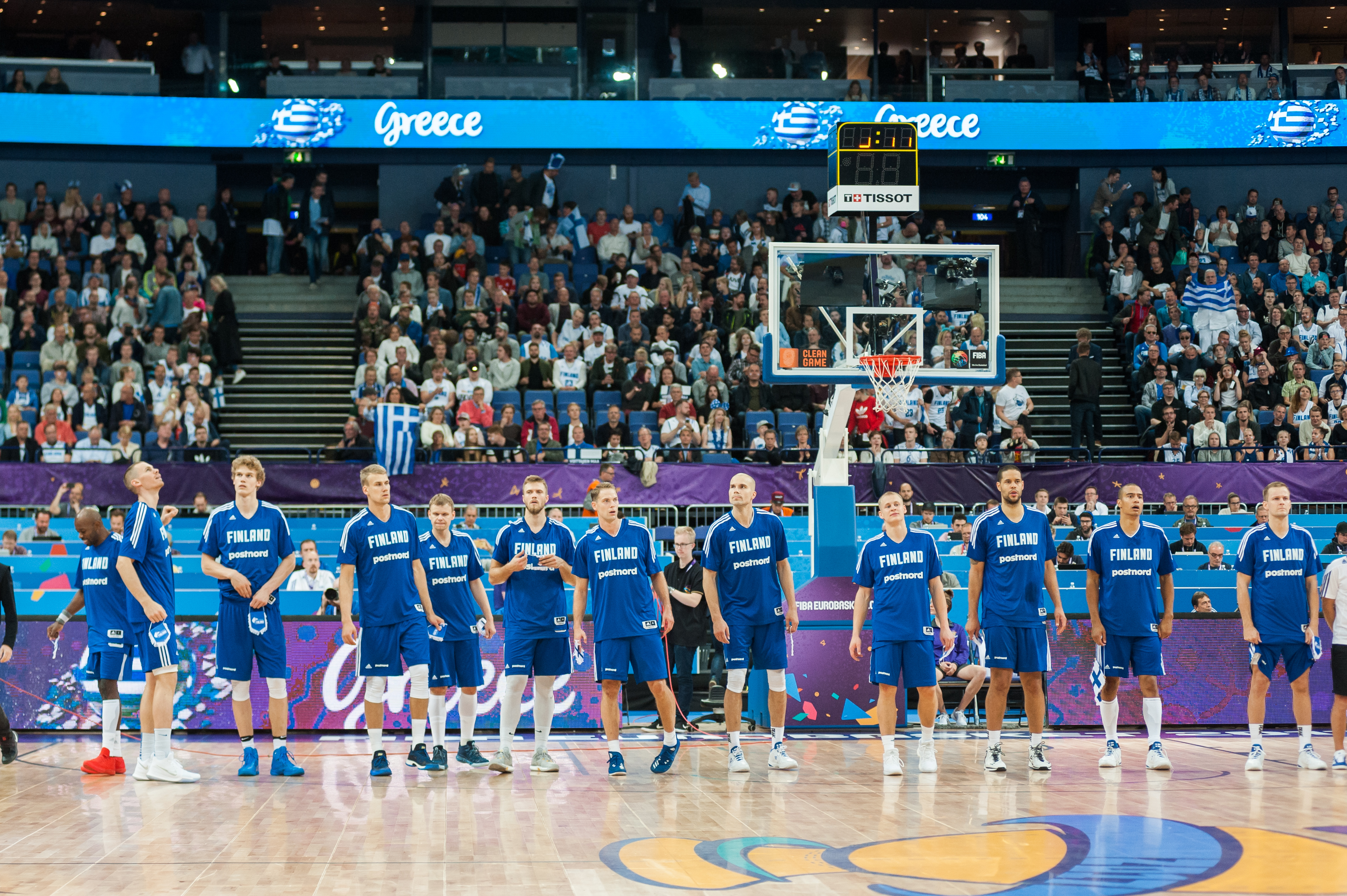 EuroBasket 2017 Group A game between Greece and Finland at Hartwall Arena in Helsinki, Finland.